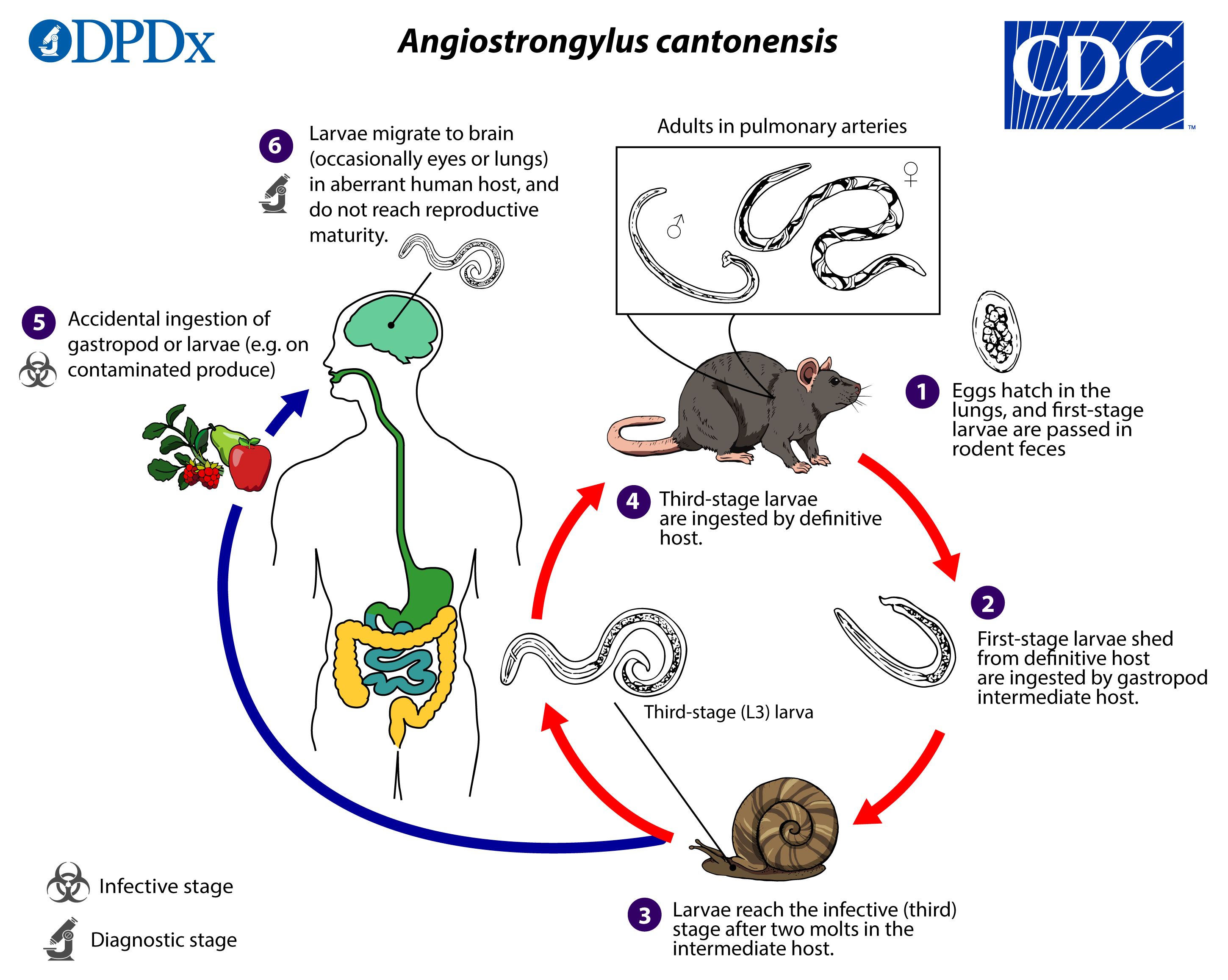 Life cycle of rat lungworm Angiostrongylus cantonensis; DPDx, Centers for Disease Control and Prevention